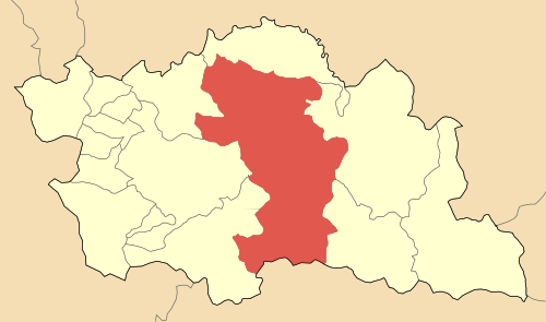 Locator map of Grevenon municipality (Δήμος Γρεβενών) at Grevena perfecture, Greece.